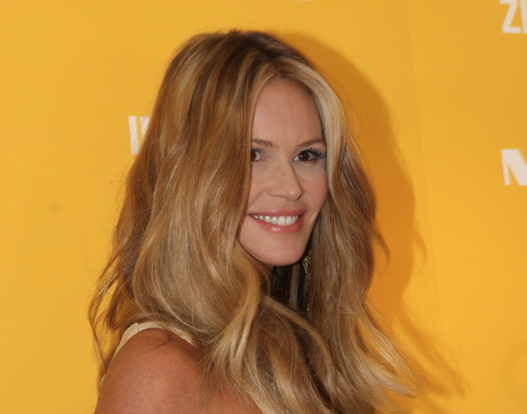 Elle Macpherson at Myer in Sydney City, taken 21 October, 2011 by Evan Rinaldi.